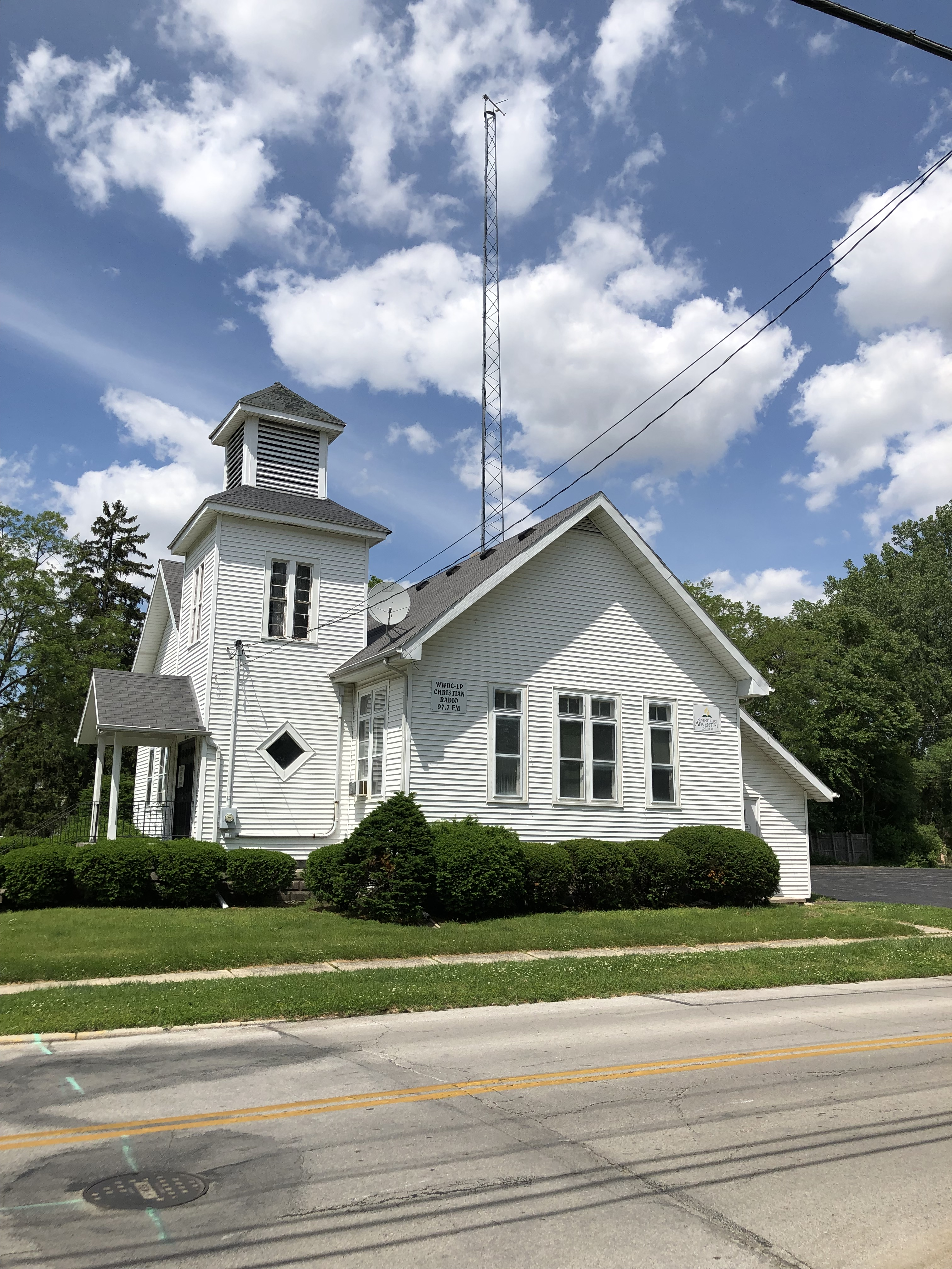 WWOC-LP Christian Radio Broadcast Station and Seventh Day Adventist Church in Bowling Green, Ohio